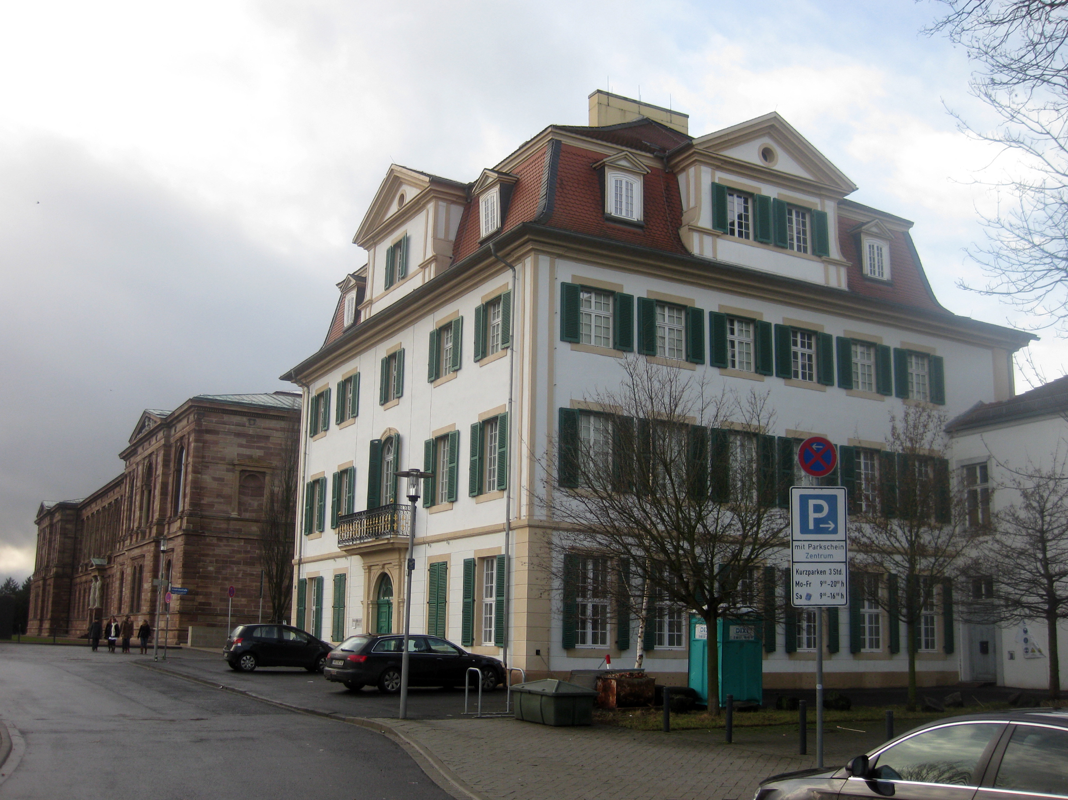 Palais Bellevue,Brüder Grimm Museum